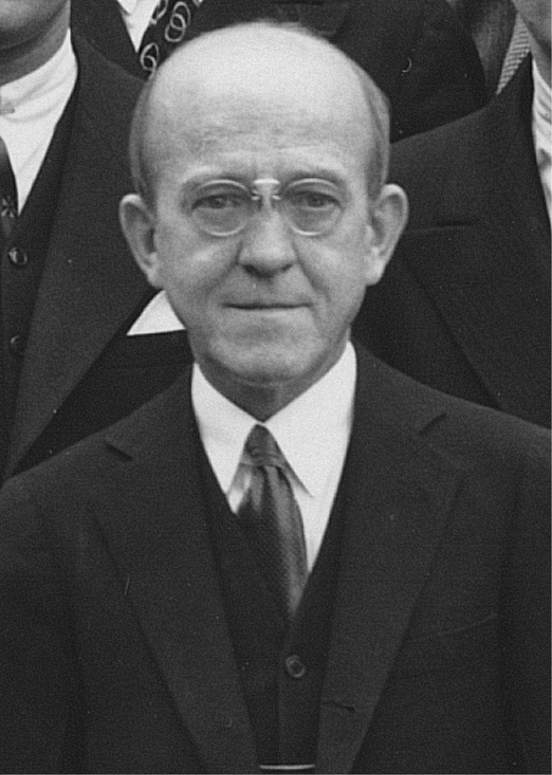 Portrait of Oswald T. Avery, cropped from a Rockefeller Institute for Medical Research staff photograph.